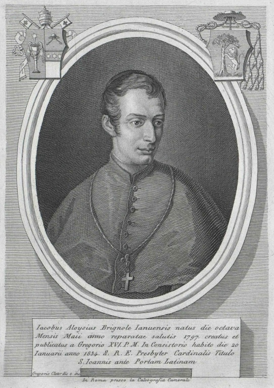 Kardinal Giacomo Luigi Brignole (1797-1853)